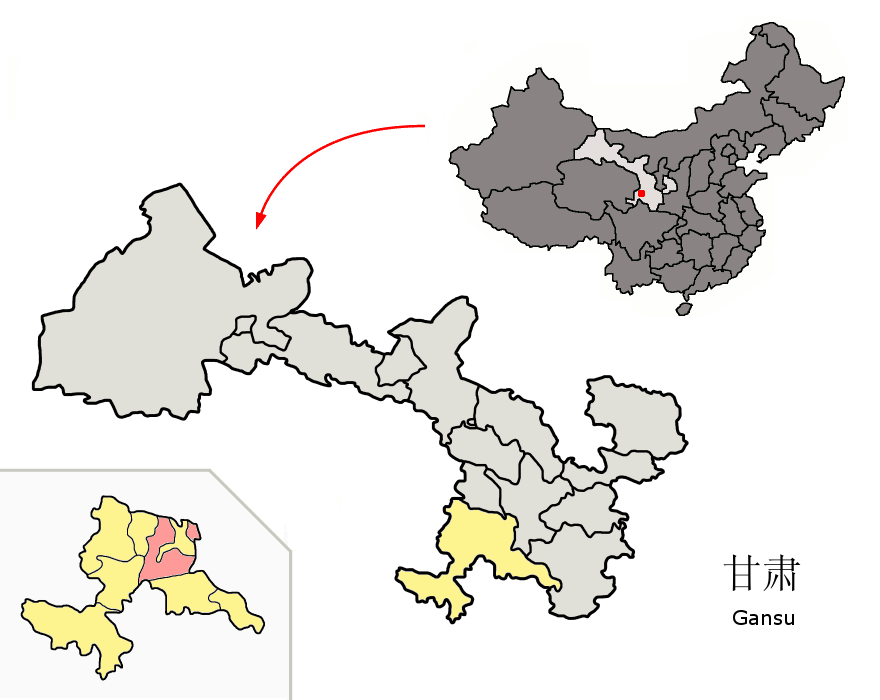 Location of Jonê County (pink) and Gannan Prefecture (yellow) within Gansu province of China Map drawn in september 2007 using various sources, mainly : Gansu province administrative regions GIS data: 1:1M, County level, 1990 Gansu Counties map from